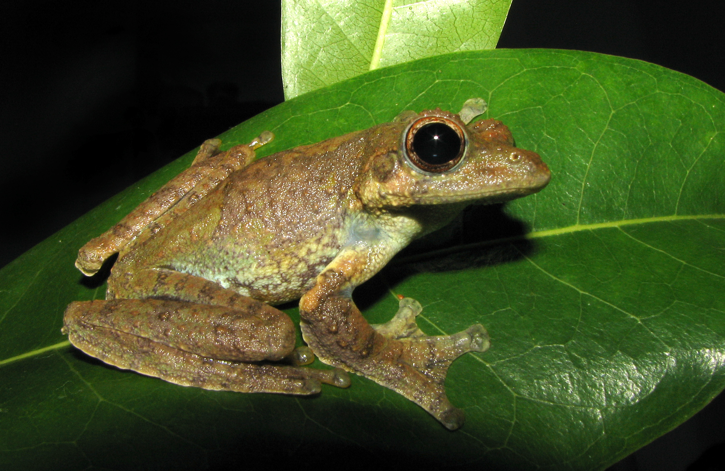 Dorso-lateral view